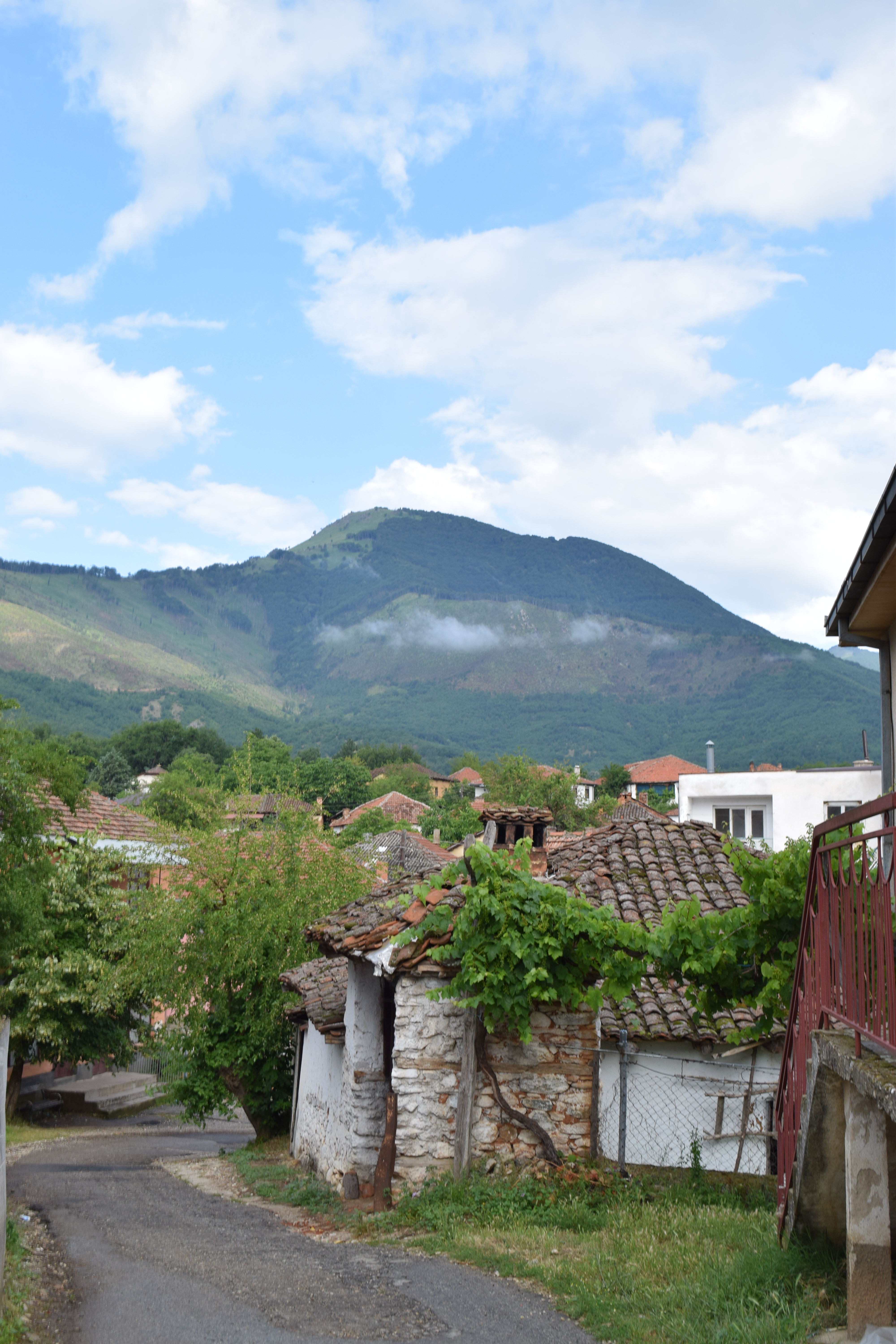 Street in the village Bogomila